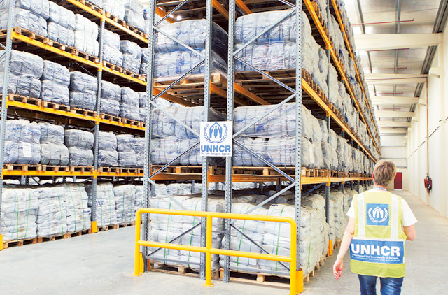 Warehouse_1m_1